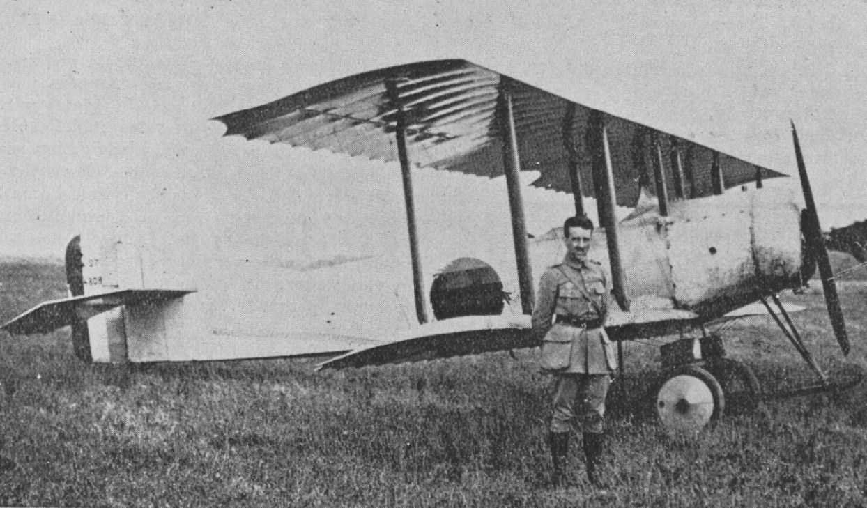 Caudron C.27 photo from L'Aerophile July,1922